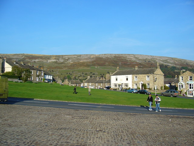 The village green, Reeth. With Fremington Edge in the background.